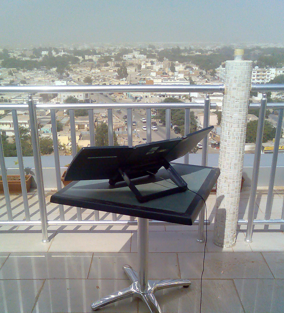 Photograph showing Nera Satellite Phone Antenna pointing across Noakchott, Mauritania